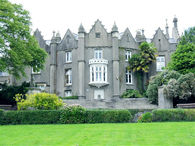 Building in Swansea University This is a building in the administrative quarter of the university - the old Singleton Abbey. This page suggests that it contains an older octagonal building called Marino, three sides of which are still visible on the exterior. If this is a photo of Marino then the roof has been modified with extra windows and the corners of the octagon have had columns added. The different window heights and positions in the sections either side of the centre portion would seem to go along with the idea of an original building being extended.